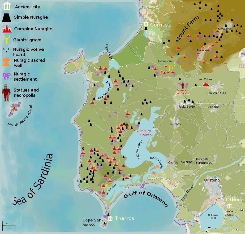 archaeological map of the Sinis peninsual